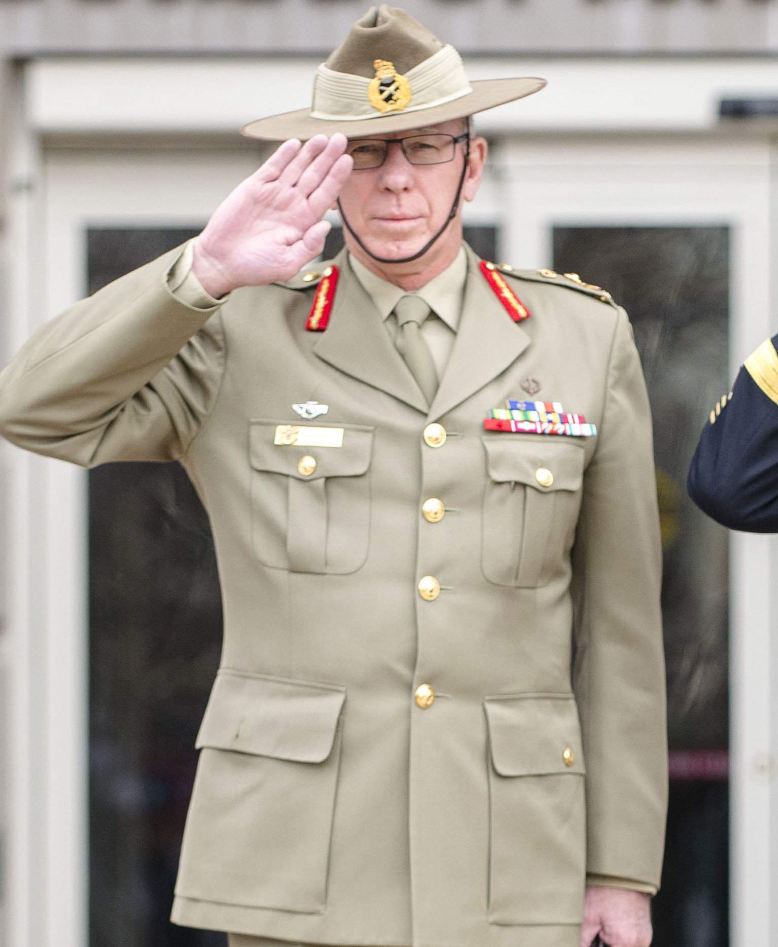 Generals David Hurley and Martin Dempsey